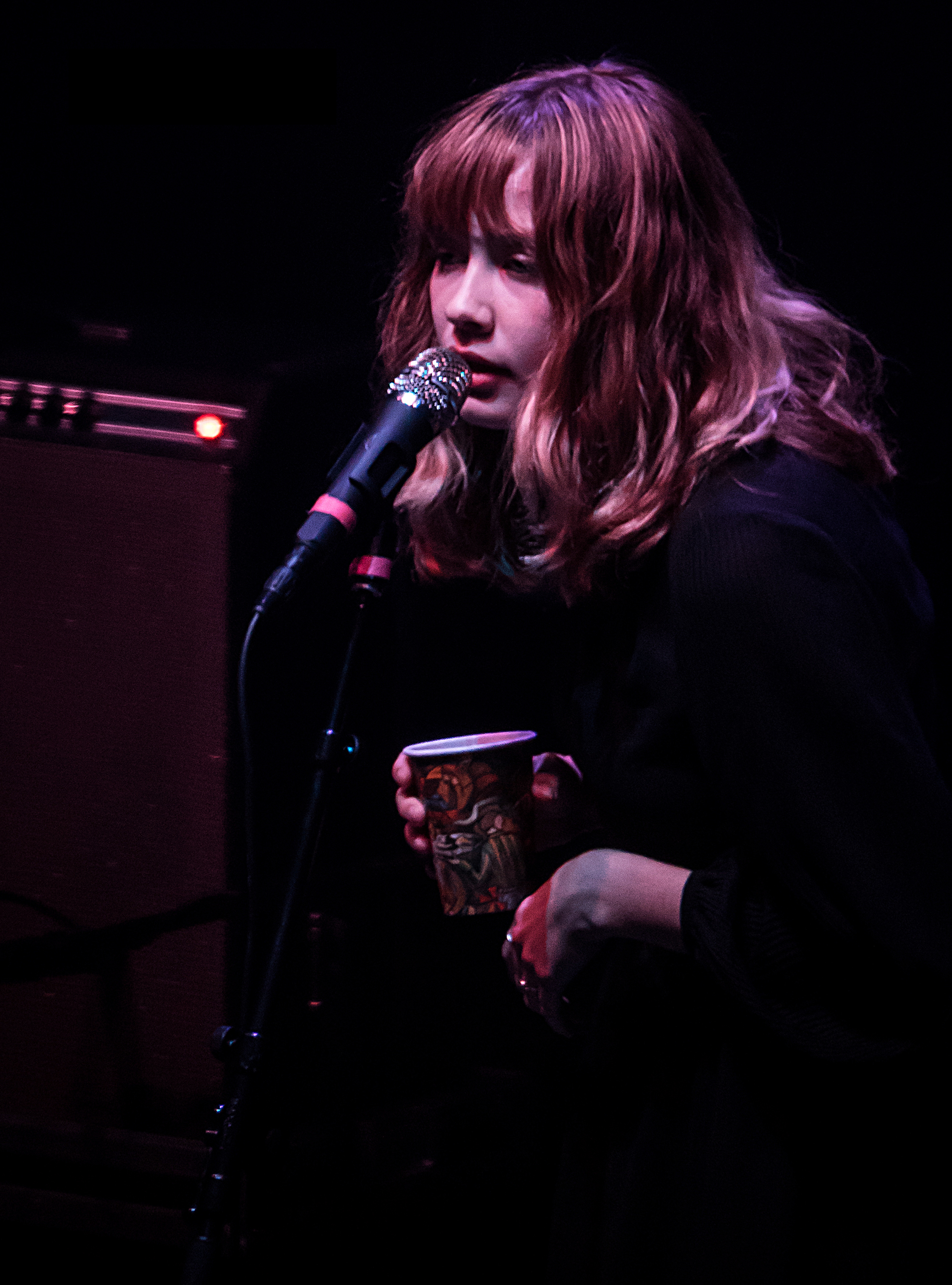 Alexandra Savior at The Wiltern